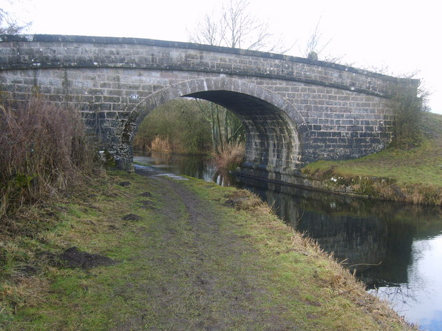 Bridge 167, Lancaster Canal Old Hall Bridge near Crooklands